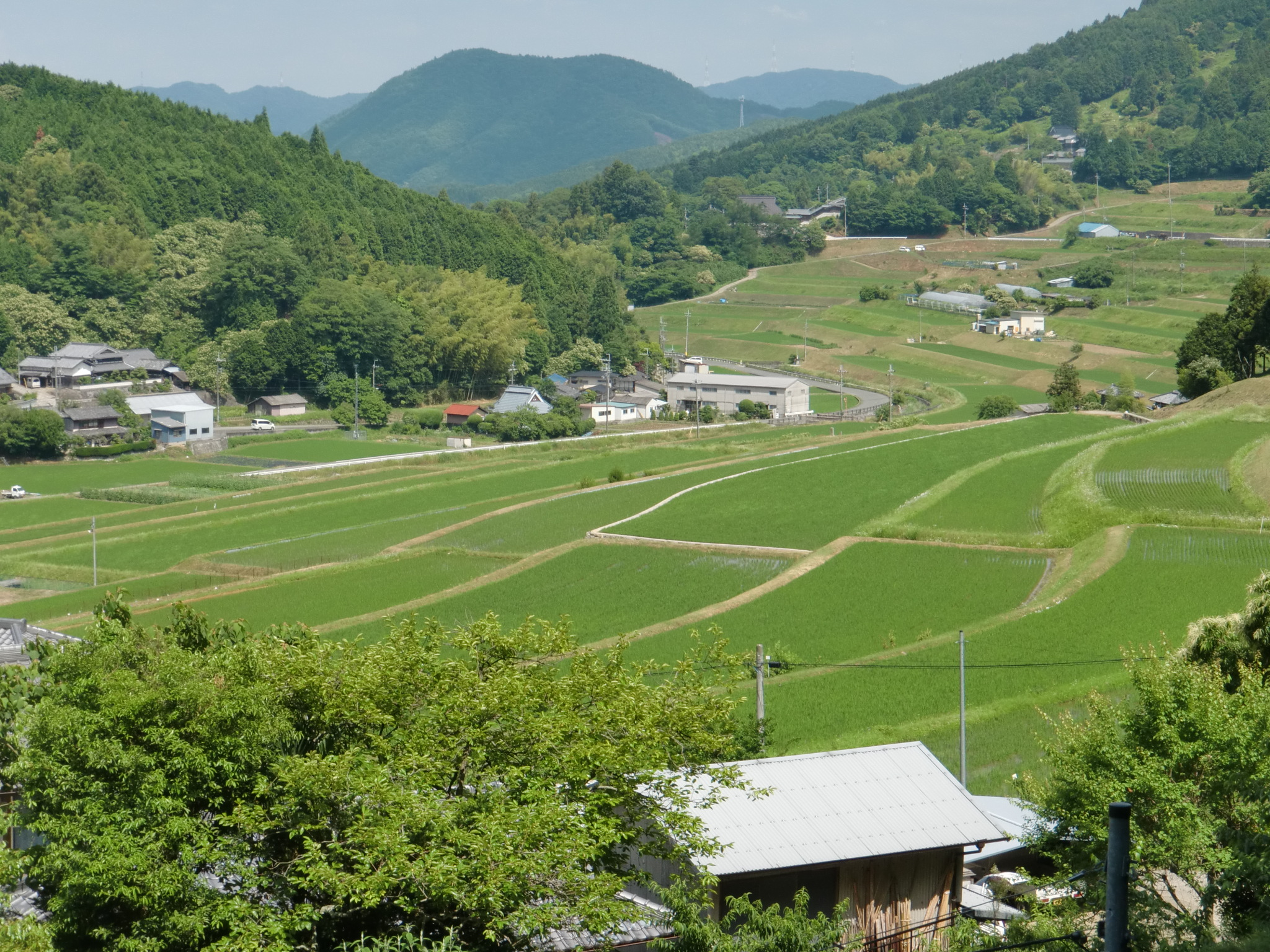 Terrace field at Nose town Osaka, early summer good day